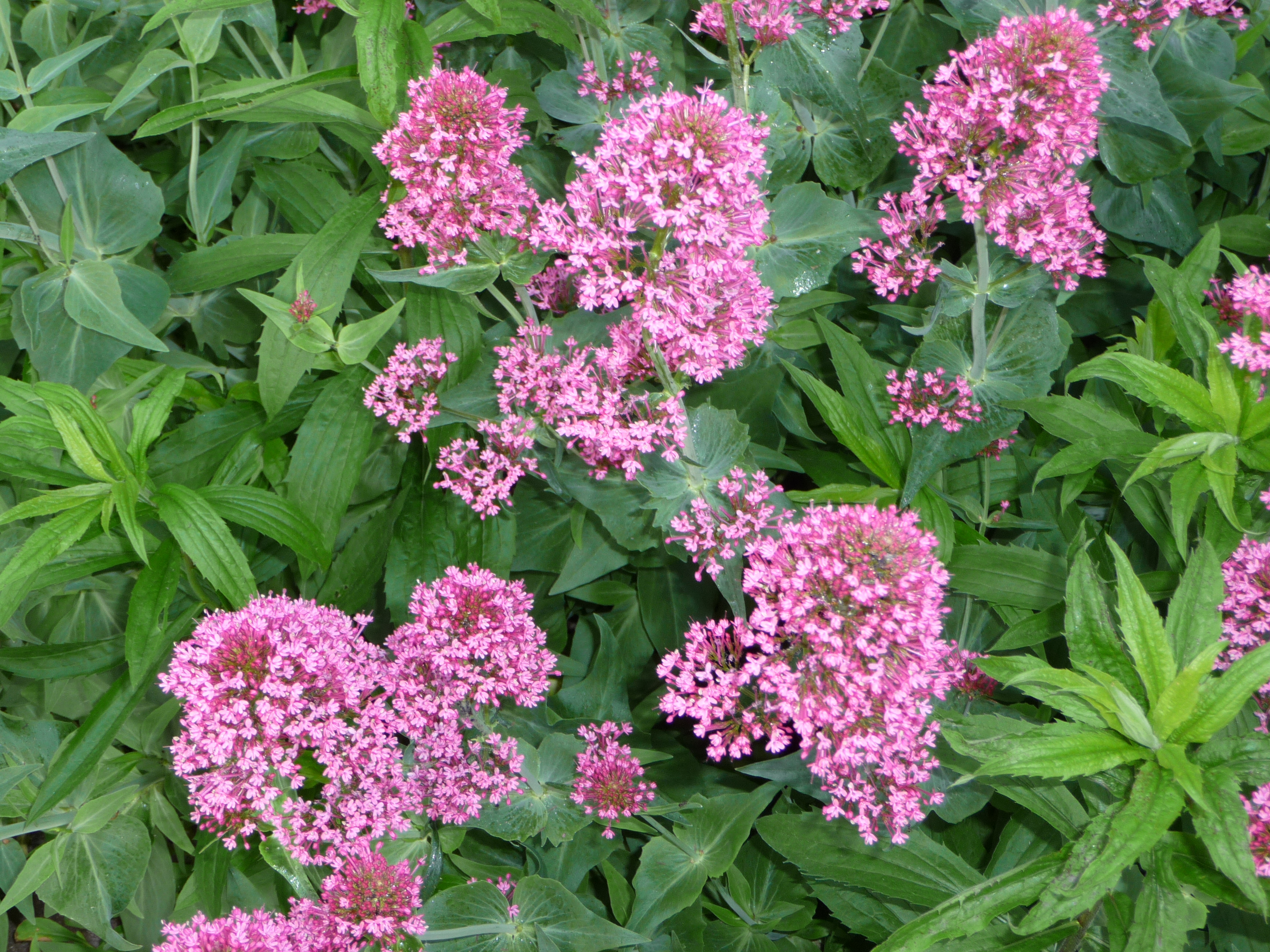 Red Valerian